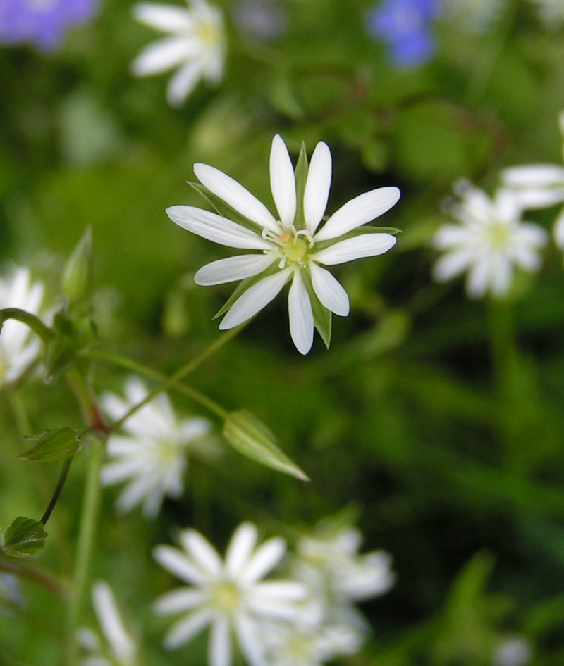 Lesser Stitchwort (Stellaria graminea) Photo by sannse, Great Holland Pits, Essex, 6 June 2004.